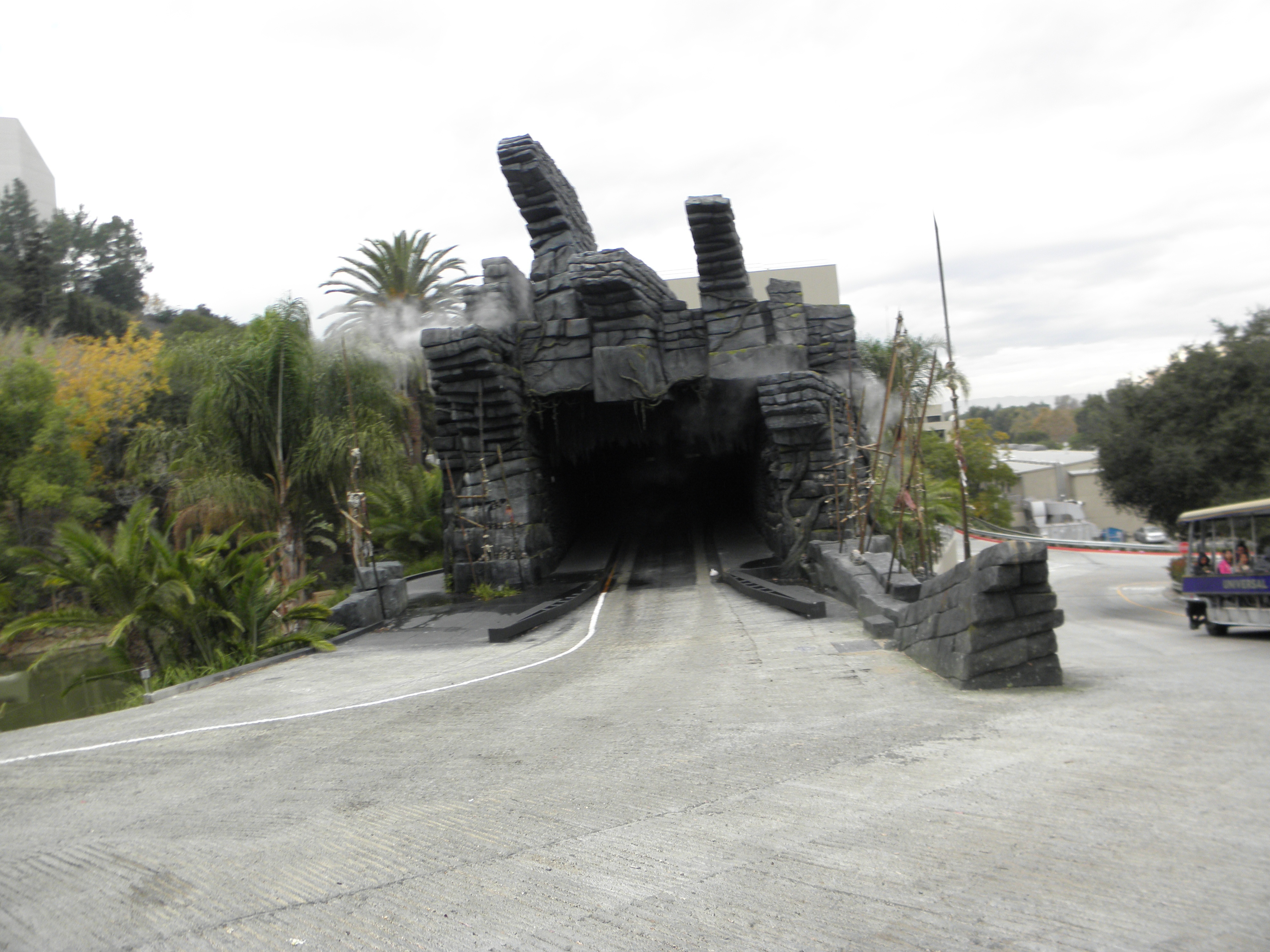 The entrance to the tunnel for the King Kong 360 3-D attraction at Universal Studios Hollywood.